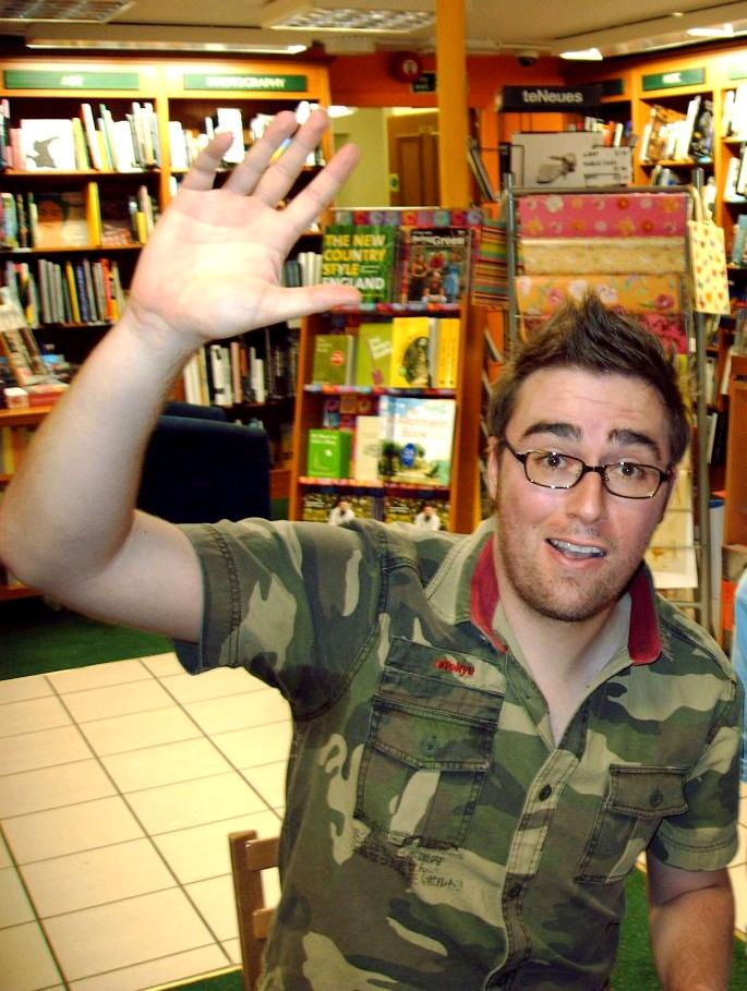 British comedian Danny Wallace (cropped)